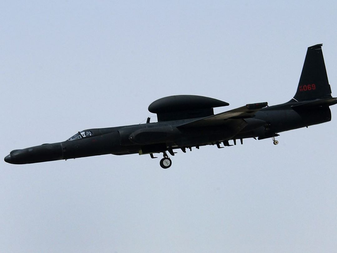 Capt. Stephen Rodriguez, of the 99th ERS (Expeditionary Reconnaissance Squadron), steadily flies his way towards the landing site after a 10 hour flight aboard a U-2 DragonLady. The U-2 is classified as a high altitude reconnaissance aircraft.